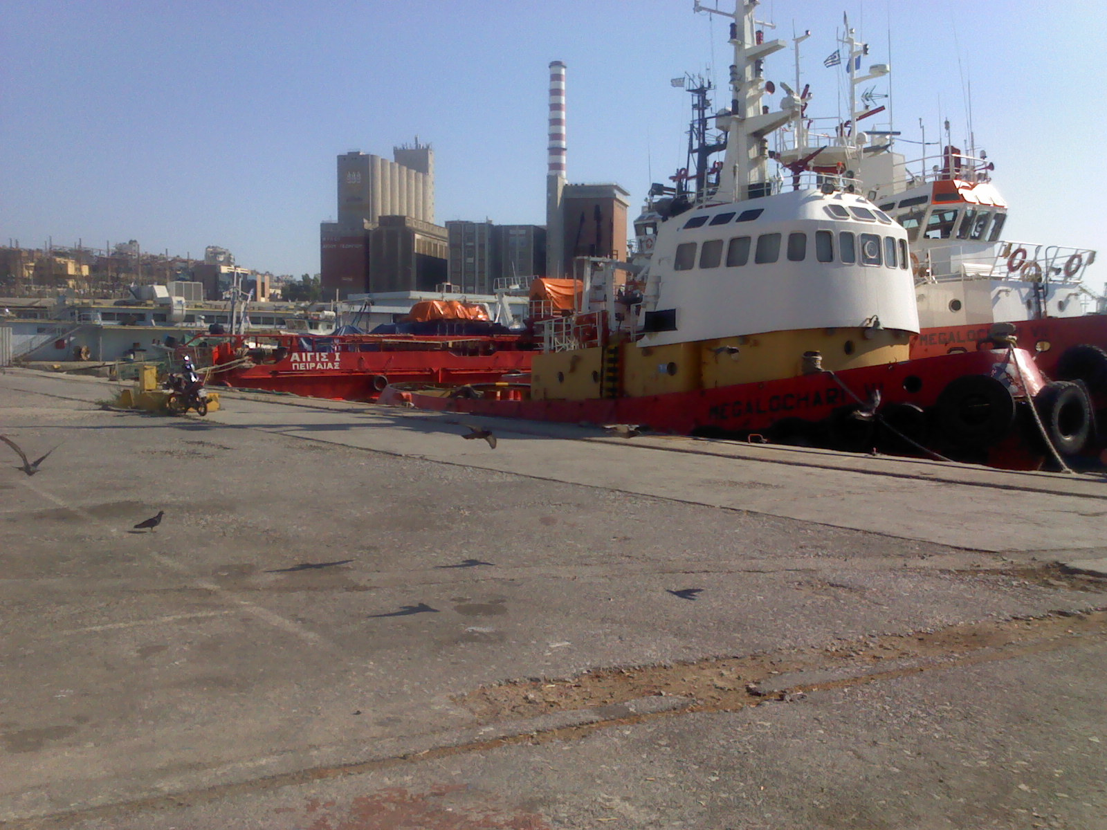 Fishscale of Keratsini